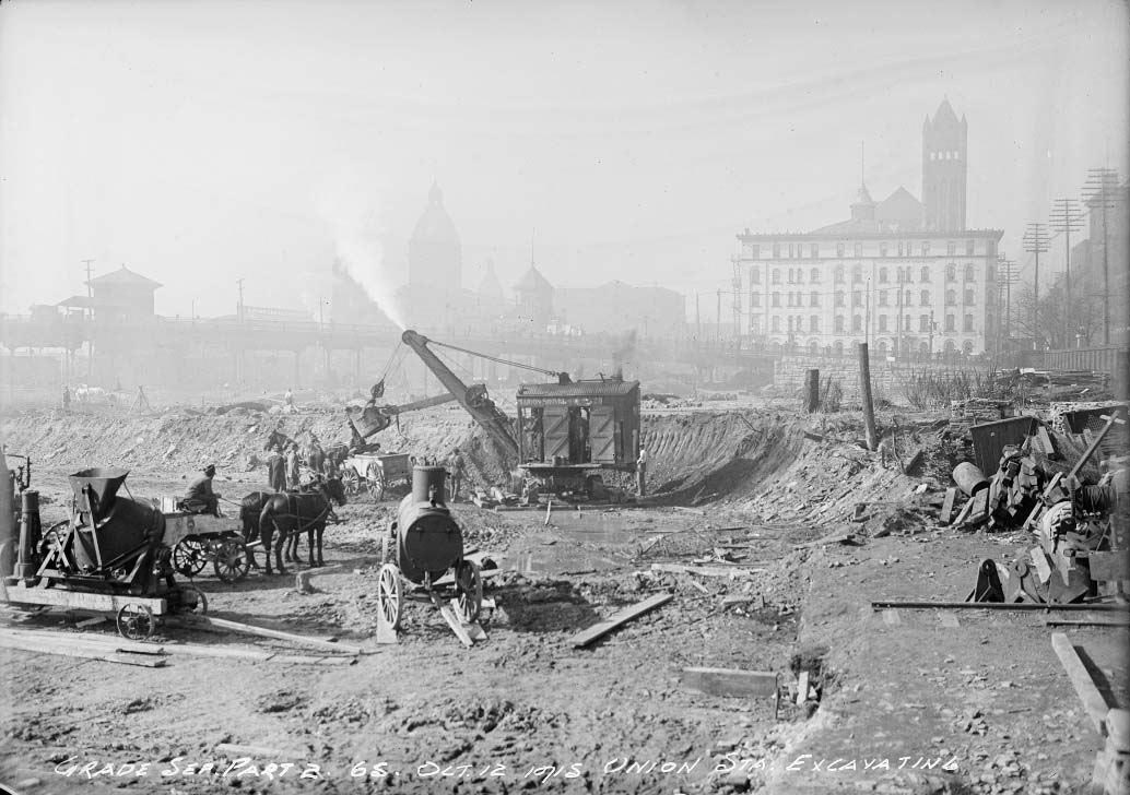 Union Station - excavation for. Looking towards the previous Union Station. (Toronto, Canada).